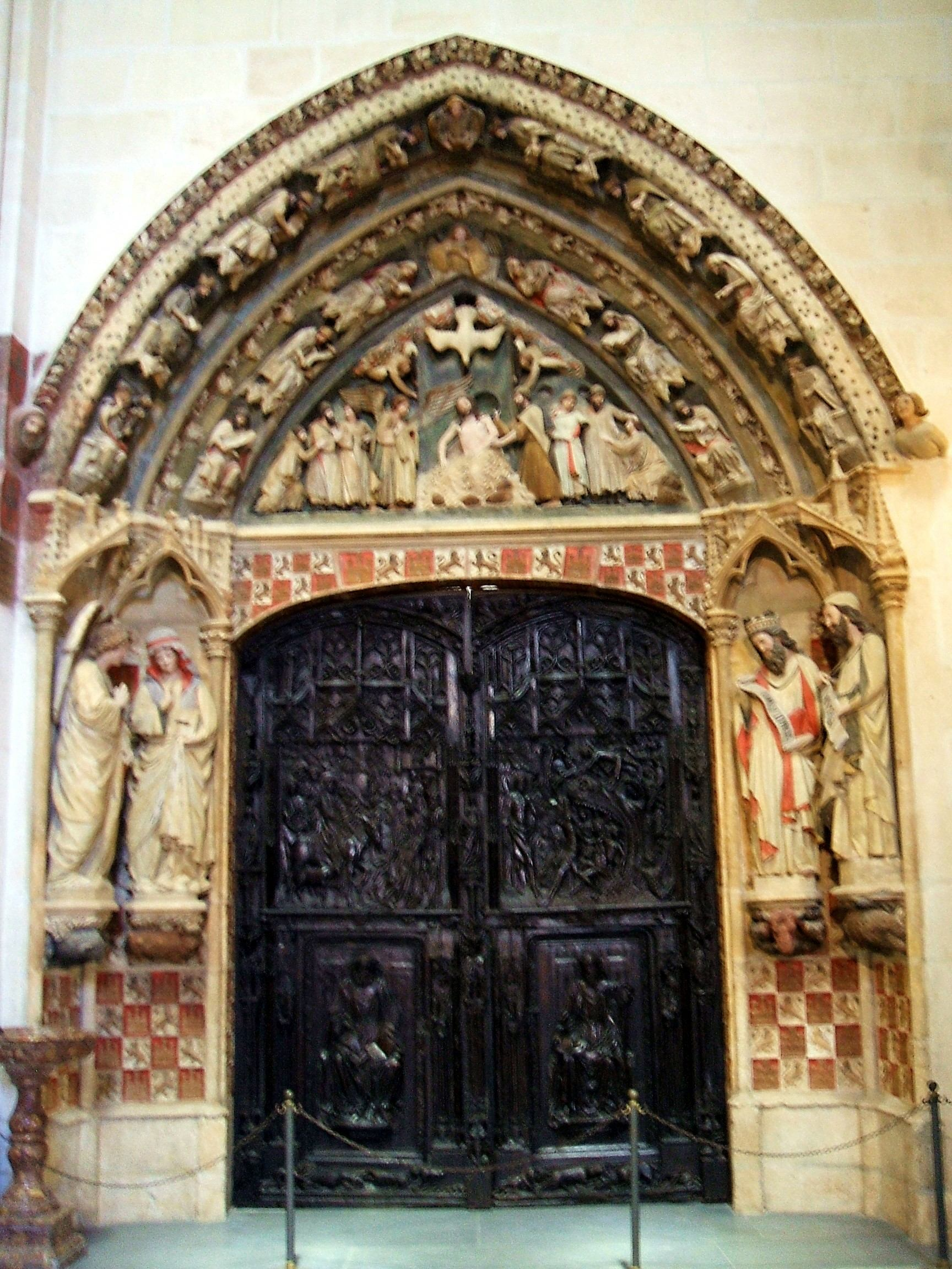 Puerta del Claustro Alto de la Catedral de Burgos, España